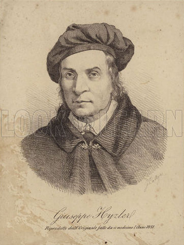 Giuseppe Hyzler. Published in 1821.